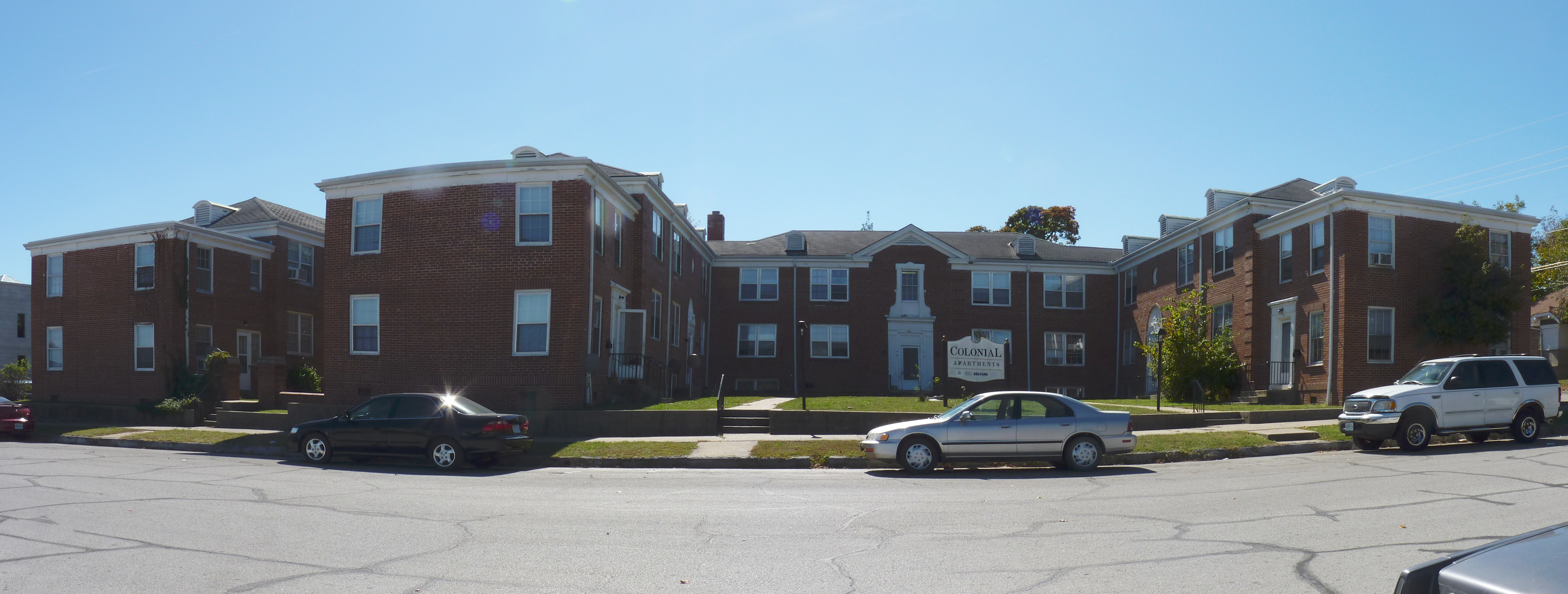 Panoramic photo of the Colonial Apartments in Carthage, Missouri. Created with Hugin, equirectangular projection.